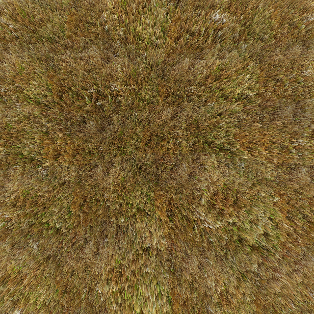 Grass generated using Iterative Parallax Mapping